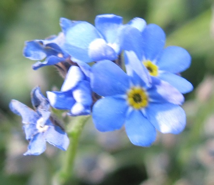 Bloom of Forget-Me-Not cultivar 'Bluesylva' growing in a Mason, New Hampshire garden.